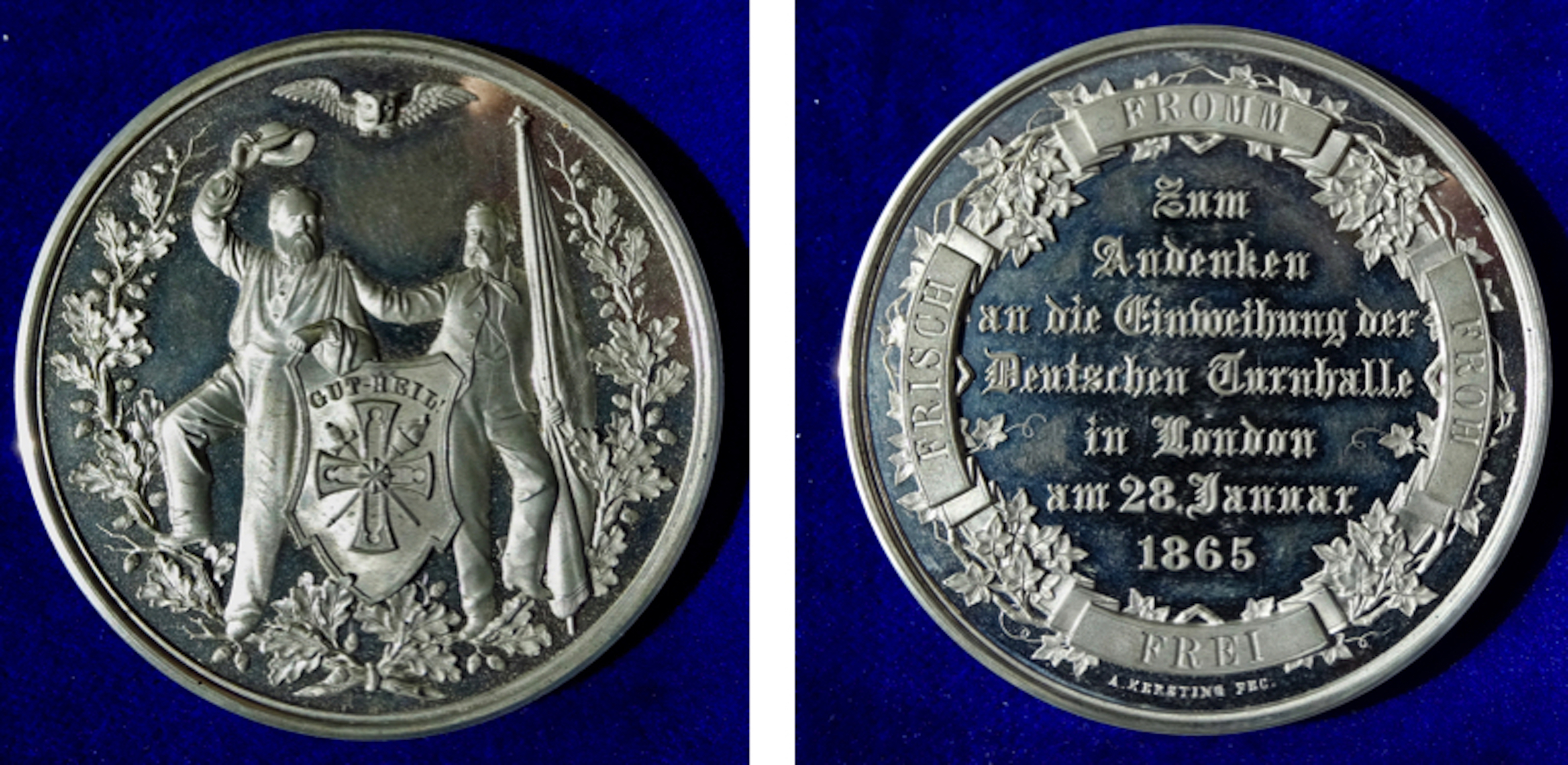 London, England, 1865 Medal for the Opening of the German Gymnasium. Pewter medallion, d. = 51 mm. The German Gymnasium, London is a heritage building near King's Cross Station. It was the first gymnasium built in England from 1864 to 1865. The National Olympian Association used the Gymnasium as one of the venues for its first ever Games here in 1866. These continued annually until the Olympic Games were held in London in 1908. Jahn, Friedrich Ludwig, German gymnastics educator, 1778 Lanz, Brandenburg-Prussia - 1852 Freyburg (Unstrut), Saxony-Anhalt. "GUT- HEIL!" on shield between 2 gymnasts with flag. / 7 lines: "Zum Andenken an die Einweihung der Deutschen Turnhalle in London am 28. Januar 1865". Surrounded by 4 scrolls with the motto of the Turnvater Friedrich Ludwig Jahn: "FRISCH" "FROMM" "FROH" "FREI". Forrer III, p. 145. Medallist: A. Kersting, London Condition: UNCIRCULATED, full lustre.